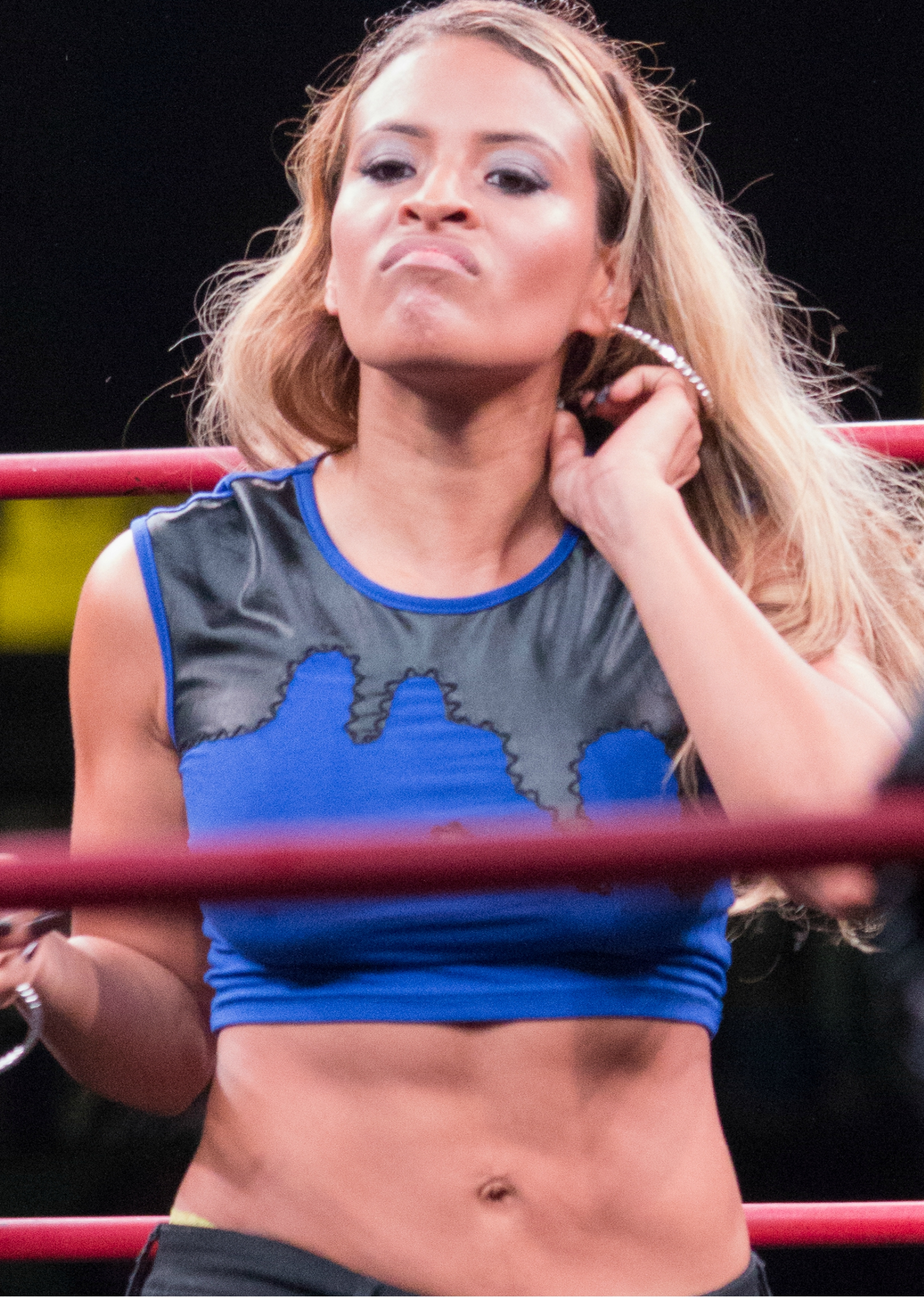 WWE's Zelina Vega as Thea Trinidad during the House of Hardcore 8 show at Ted Reeve Arena in Toronto in 2015. Cropped from the original to focus on the subject, second image.